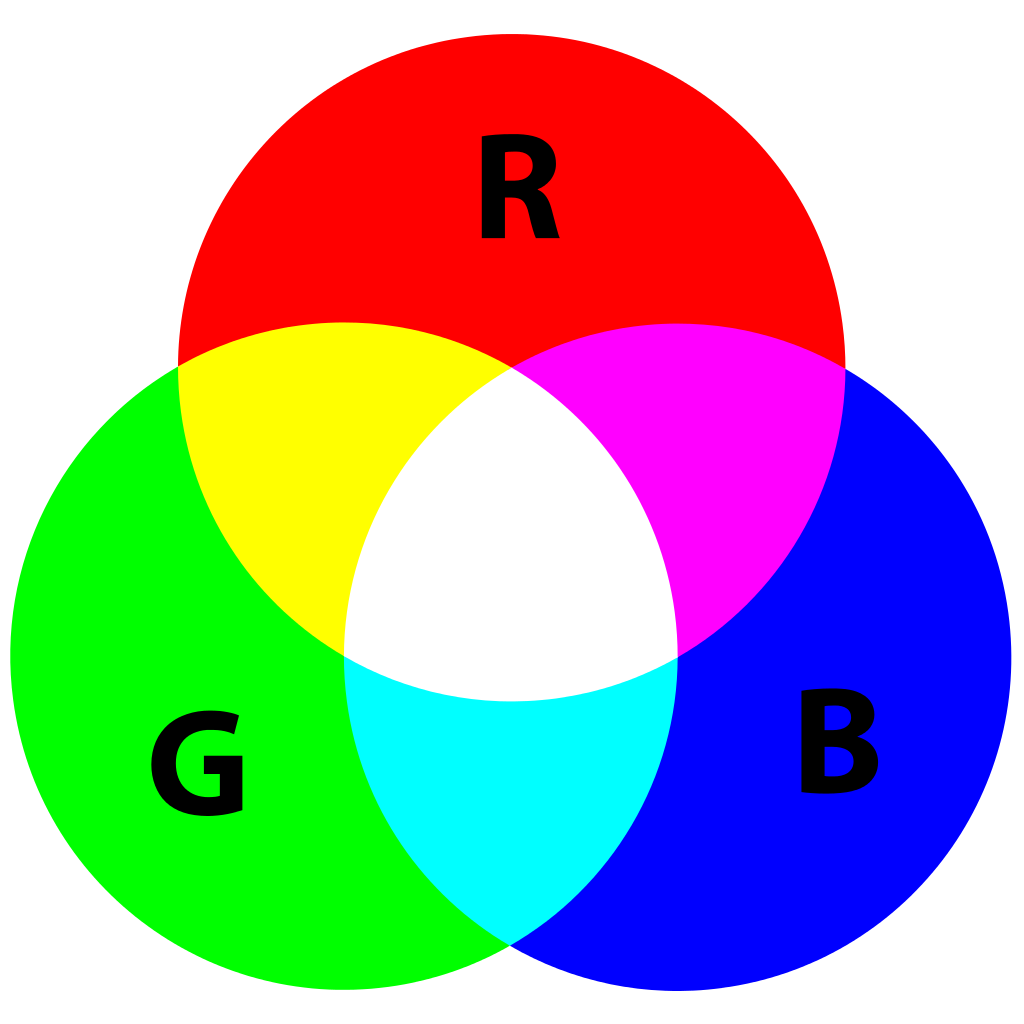 The three primary colors of RGB Color Model (Red, Green, Blue) and the combination of those colors